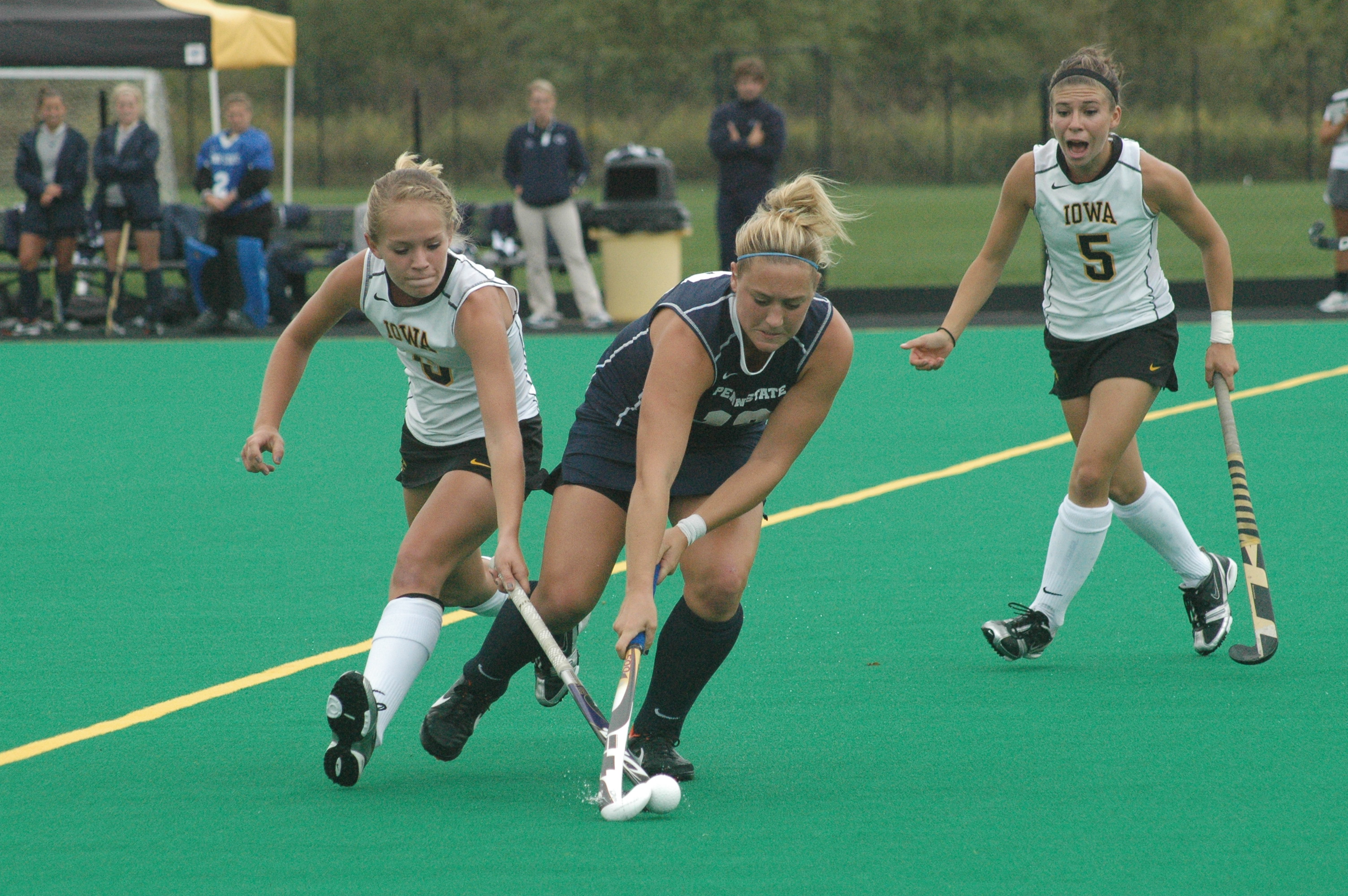 The Penn State Nittany Lions vs. the Iowa Hawkeyes during a Big Ten field hockey game in Iowa City, Iowa.